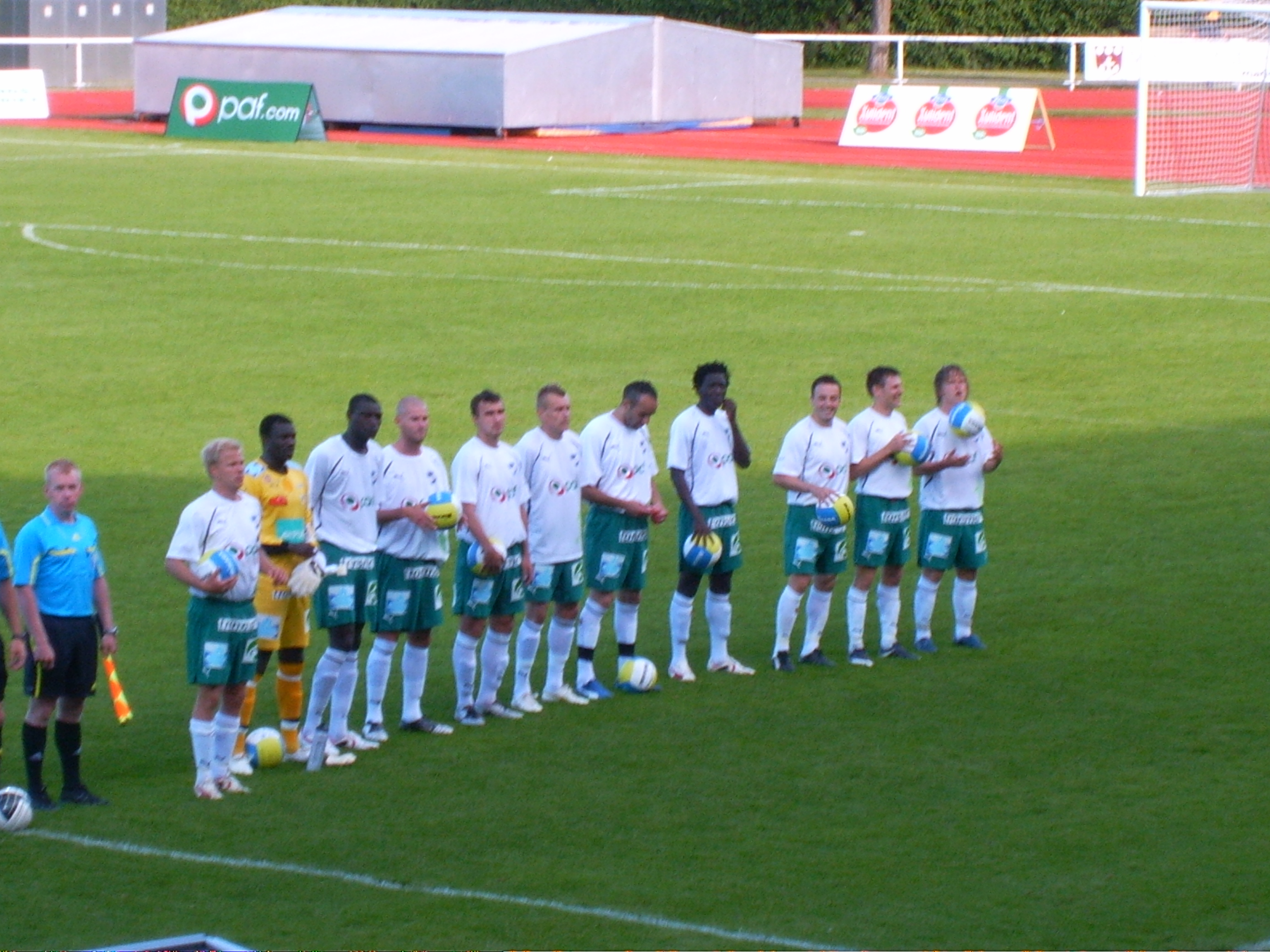 Soccer players from IFK Mariehamn, Mariehamn, Åland, Finland.